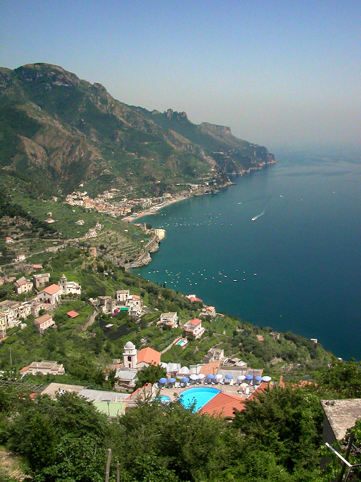 A shot from the main bus stop to the town, just outside the town's gates. Haze is a problem here, but you get the idea. Ravello in Italy is very high over the sea and coastline and offers commanding and beautiful views!